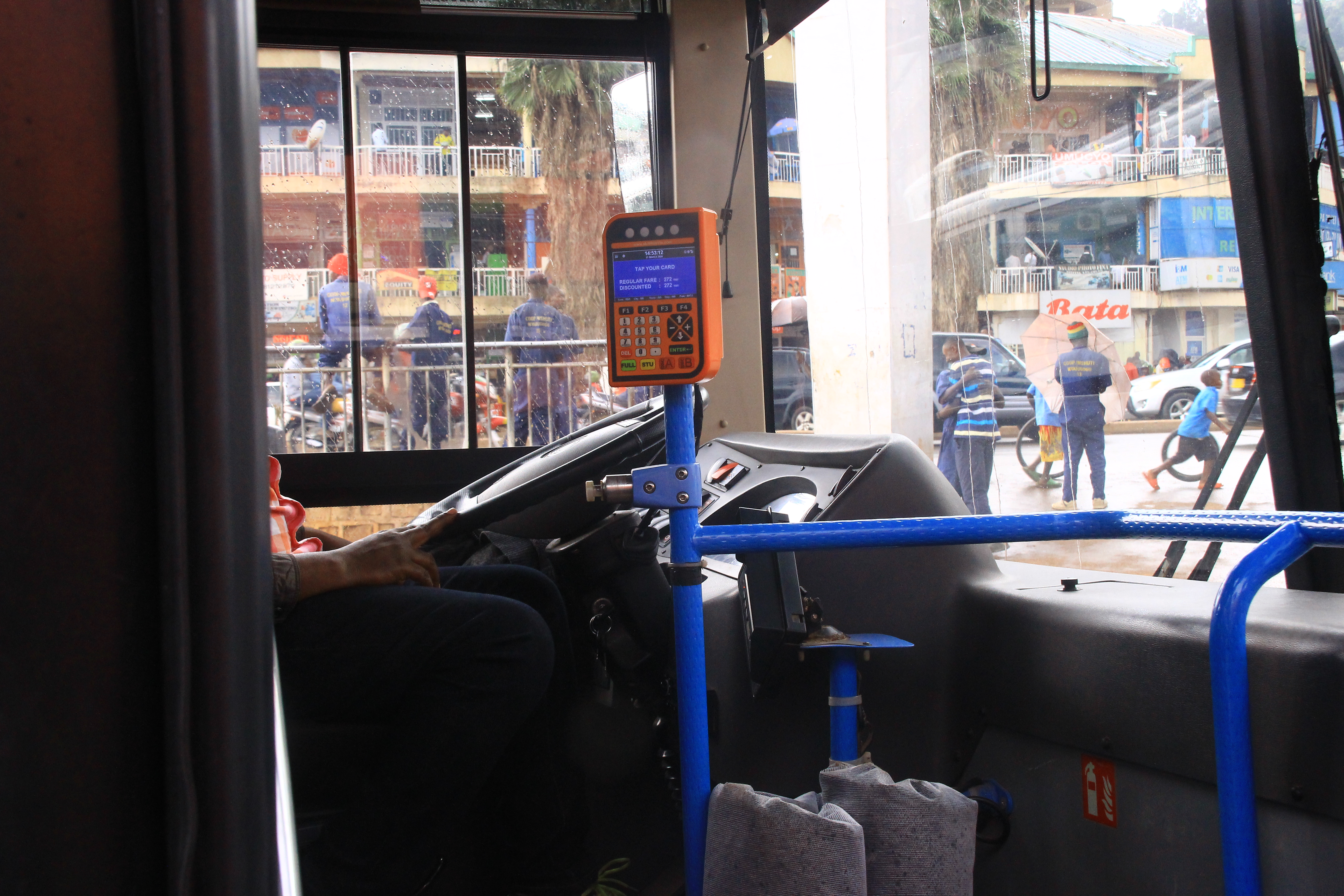 Tap & go machine in a big bus This is an image with the theme "Africa on the Move or Transport" from: Rwanda